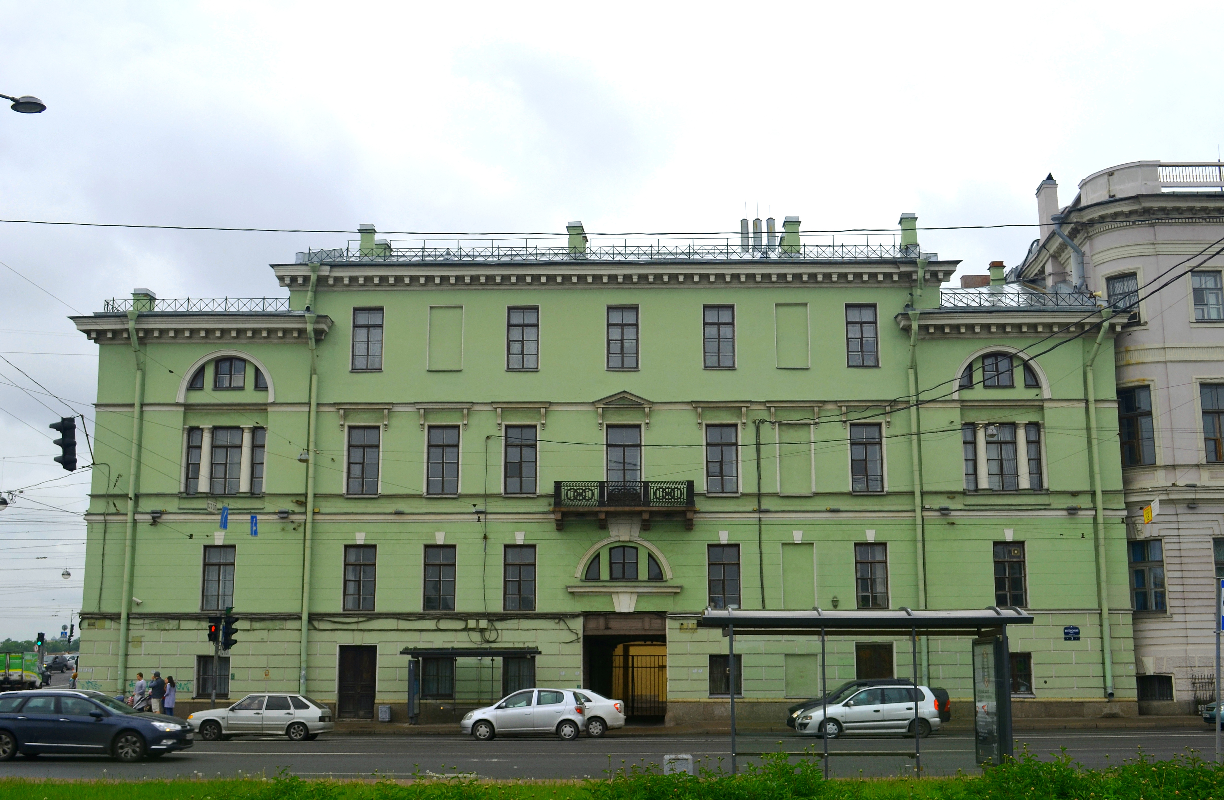 The house of F.I. Groten (House of N. I. Saltykov) (architects: D. Quarenghi, K.I. Rossi, G.A. Bosset, K.I. Lorentzen), 1784-1788, 1818, 1843-1844, 1881: Millionnaya Street, 3. Central District, St. Petersburg